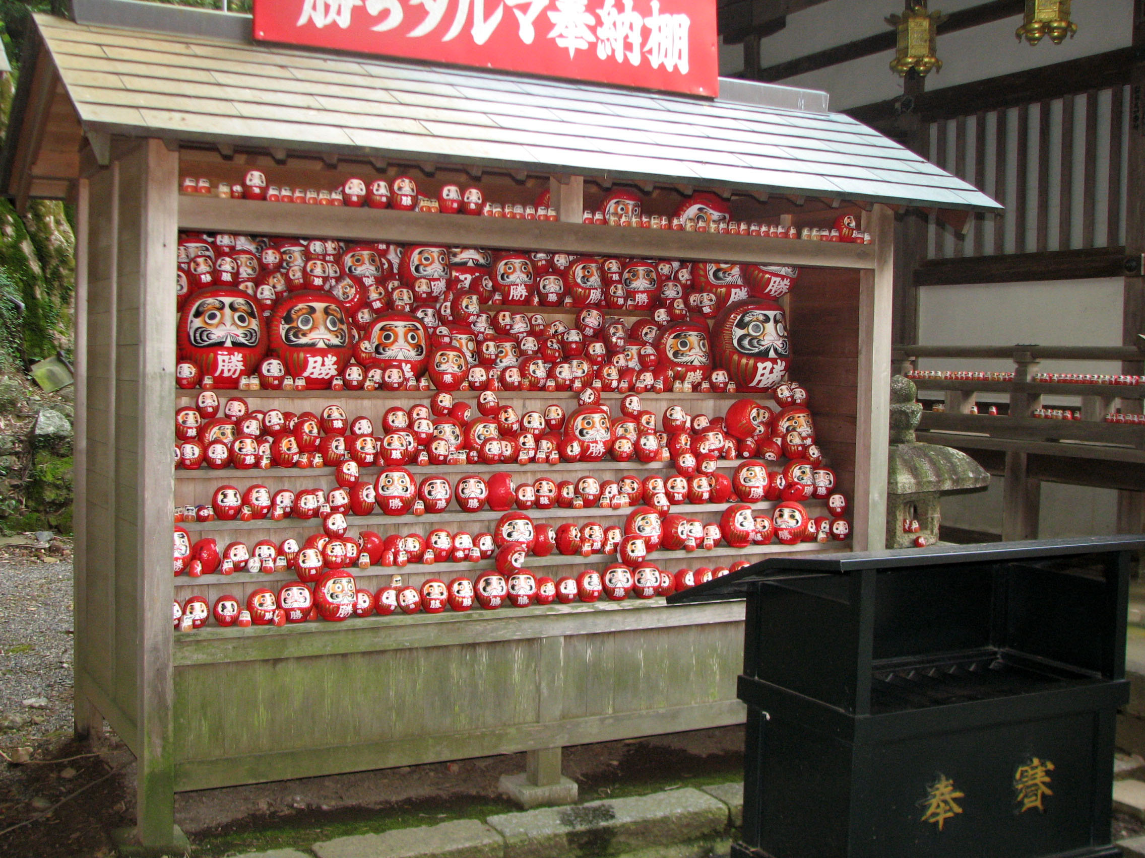 Each of these is a wish come true. You buy the Daruma from the temple, write your dream on it and fill in one eye. If you get what you wished for, you fill in the other eye and bring it back to the temple. They range in price from 2000 yen to upwards of 100,000.